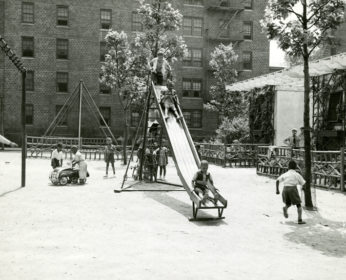 Children's Playground at Prudential Apartments Photographer: Nathaniel Rubel